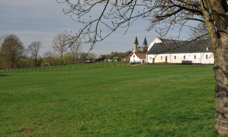 Lindenhof in Neerijse, Flemish Brabant, Flanders, Belgium.